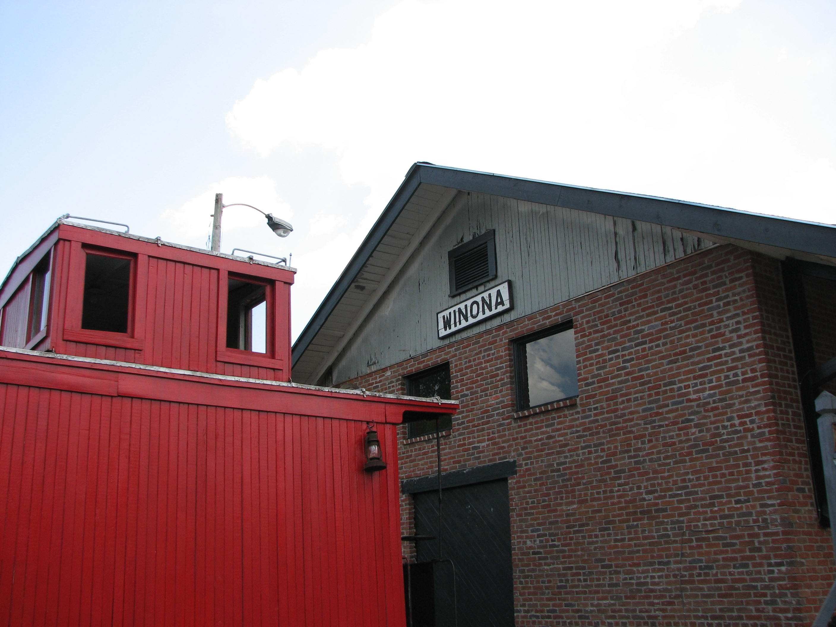 Former Illinois Central depot and Amtrak station in Winona, Mississippi. This depot was once a stop for Amtrak's City of New Orleans train, which stopped serving this route in 1995 ending 135 years of rail service to central Mississippi (it now travels through the Mississippi Delta).